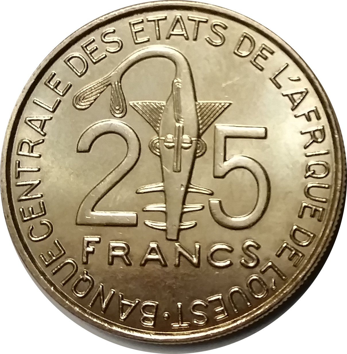 Coin of 25 Francs CFA used in Western part of Africa